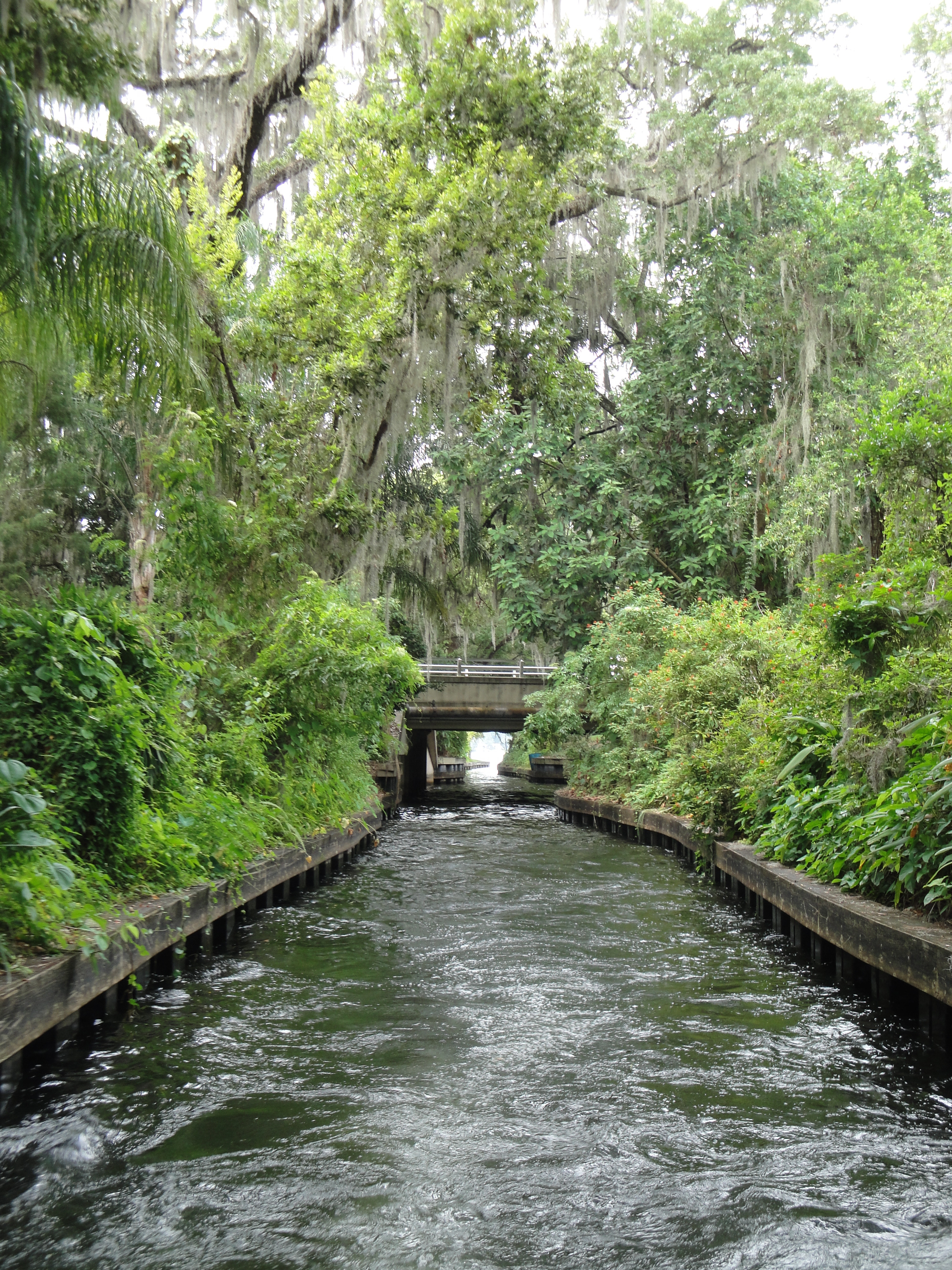 A canal in Winter Park, Florida